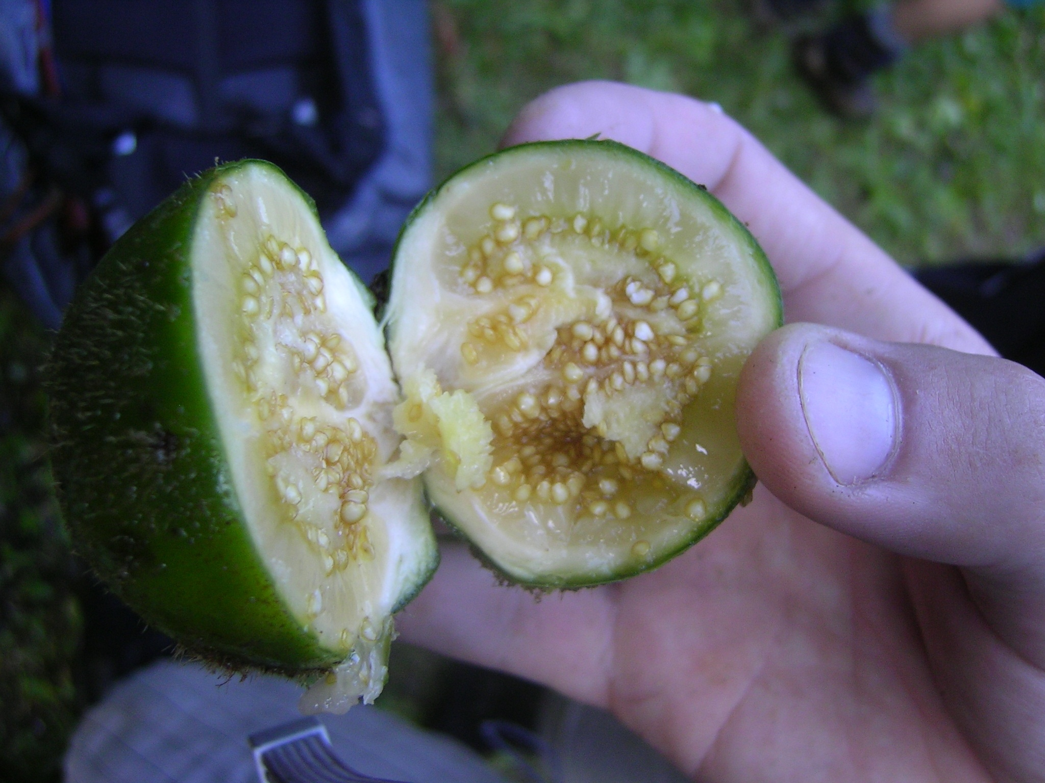 This photo was taken in Costa Rica, about 20 miles in the rain forest.